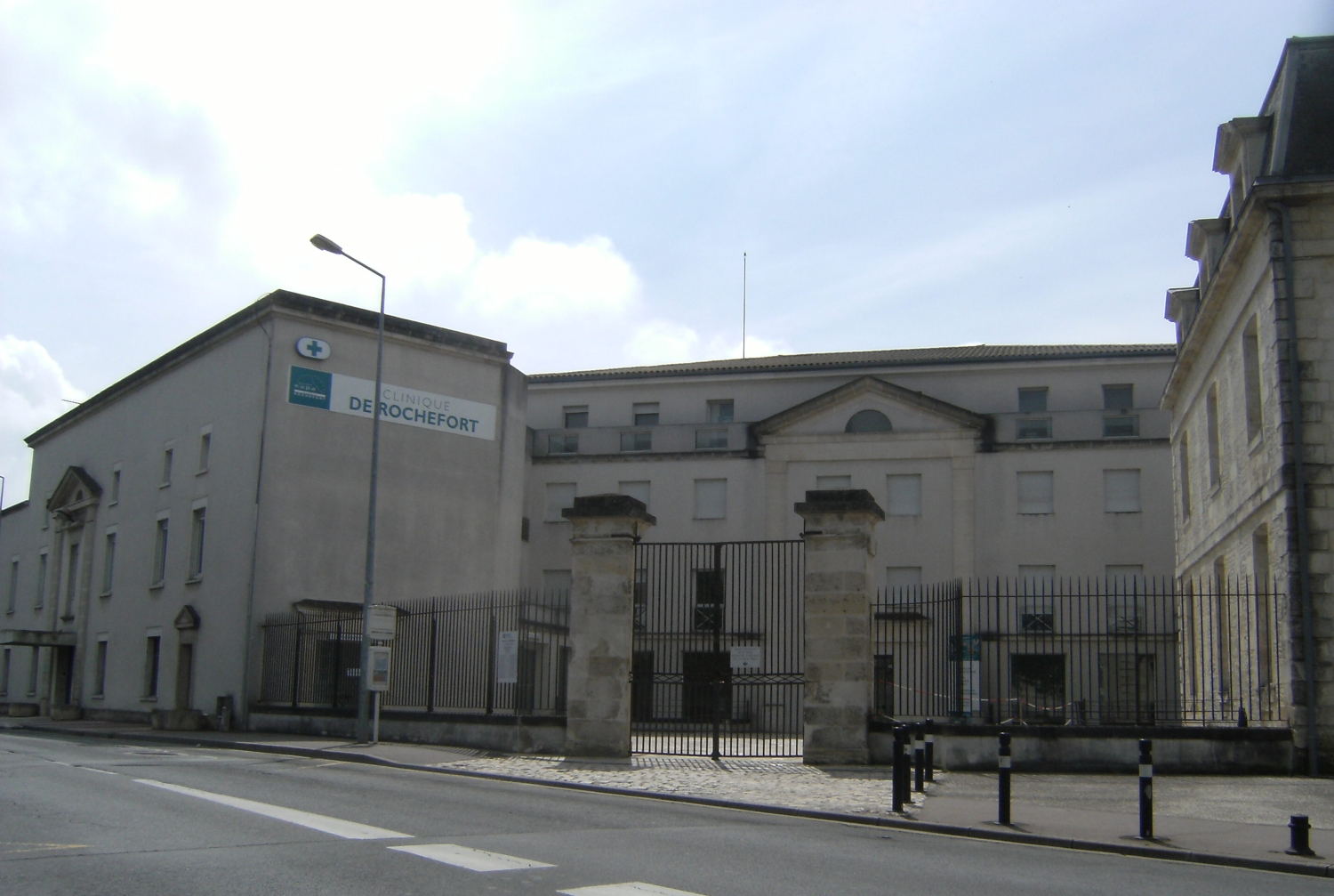 Clinique de Rochefort